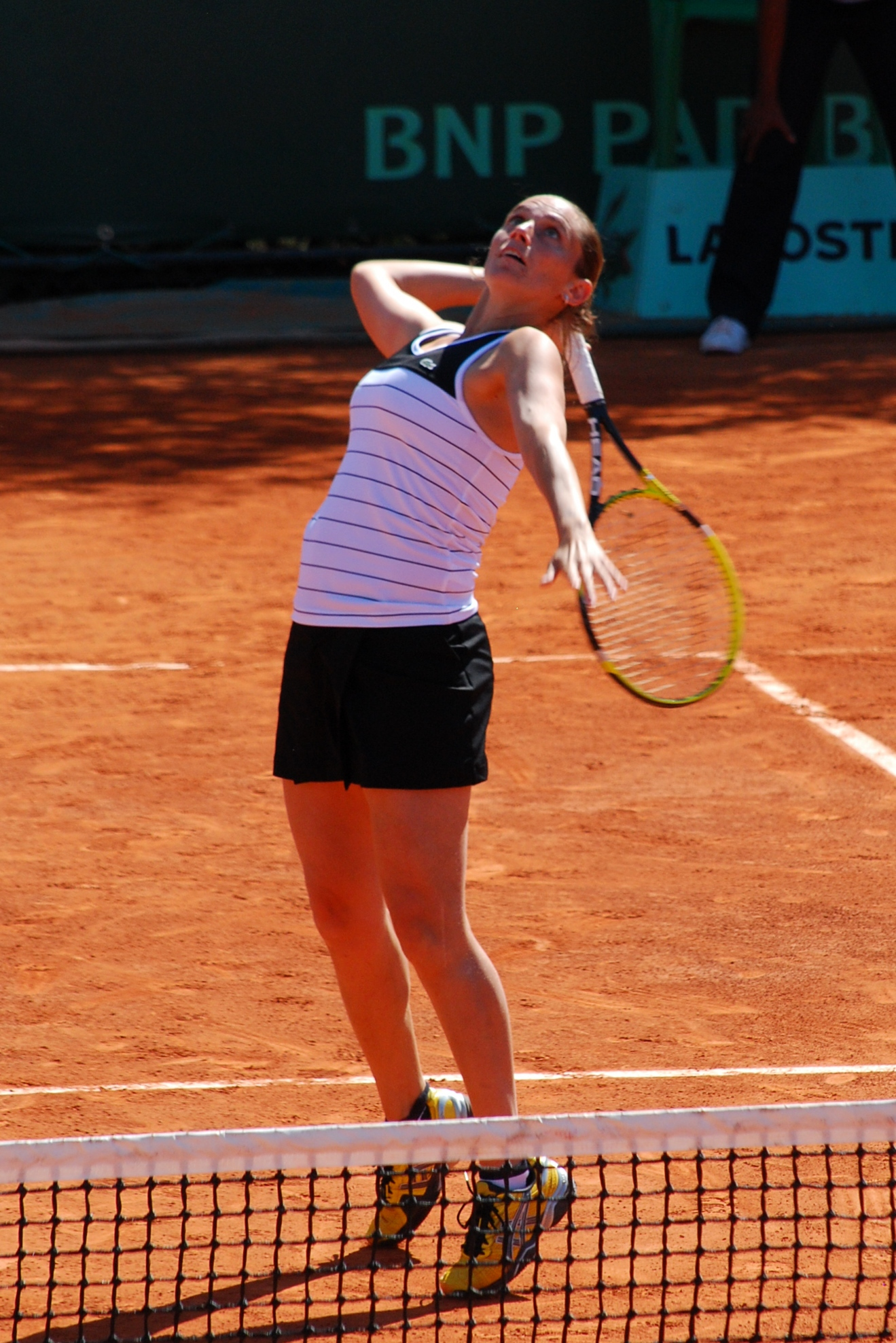 Roberta Vinci during her third round match with Sara Errani, against Gisela Dulko & Flavia Pennetta. Dulko & Pennetta won 6-4, 6-2. Day 7 of Roland Garros 2011.